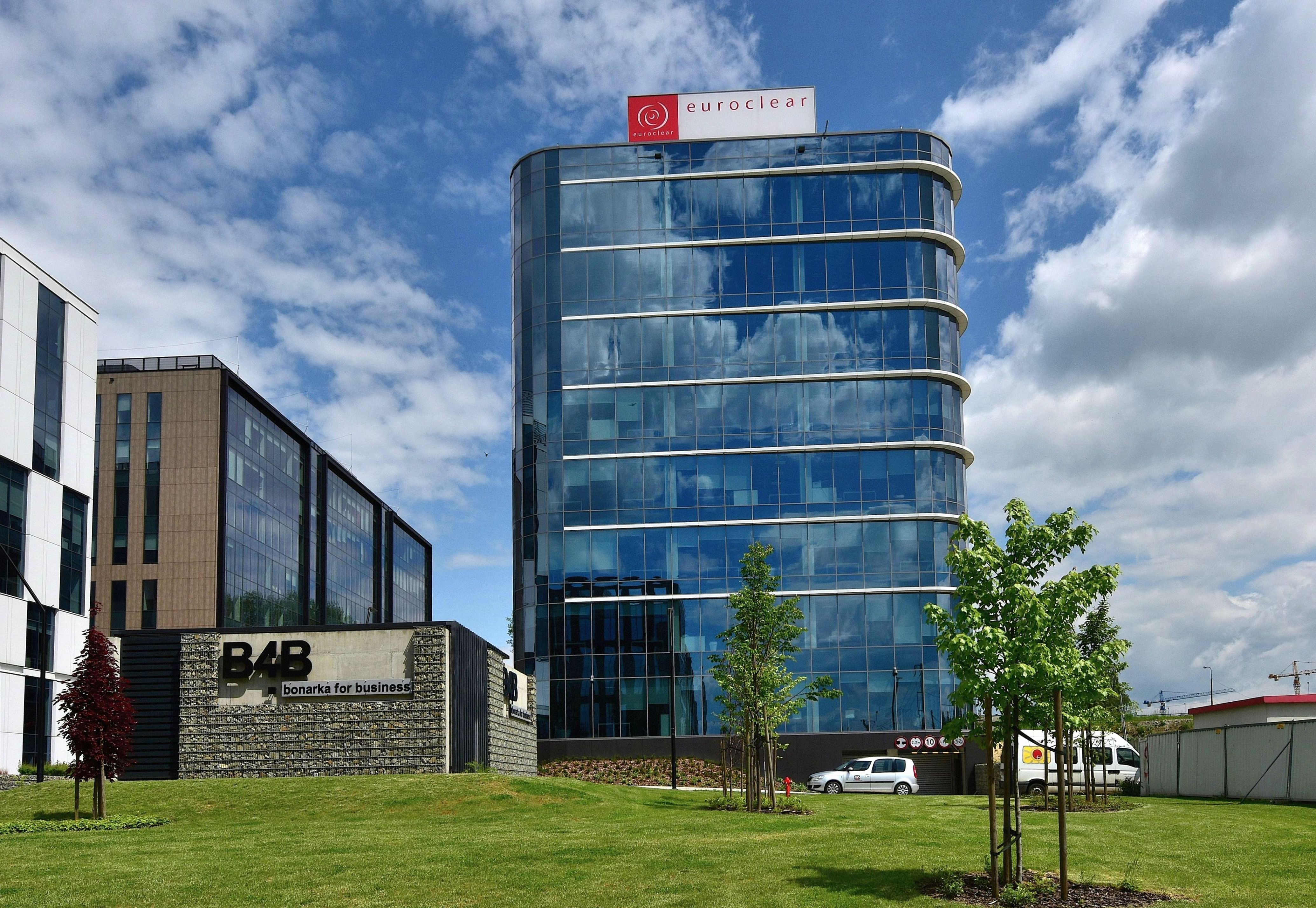 Seat of Euroclear in the Bonarka for Business office park ("B" Building) in Kraków